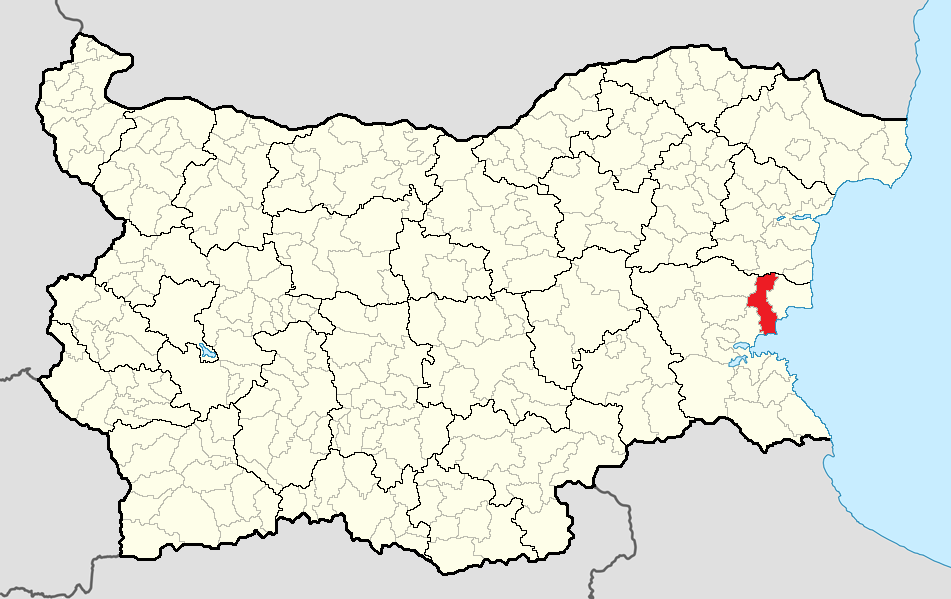 Location map of Pomorie Municipality within Bulgaria and Burgas Province Equirectangular projection, N/S stretching 130 %. Geographic limits of the map: N: 44.4° N S: 41.1° N W: 22.1° E E: 28.9° E